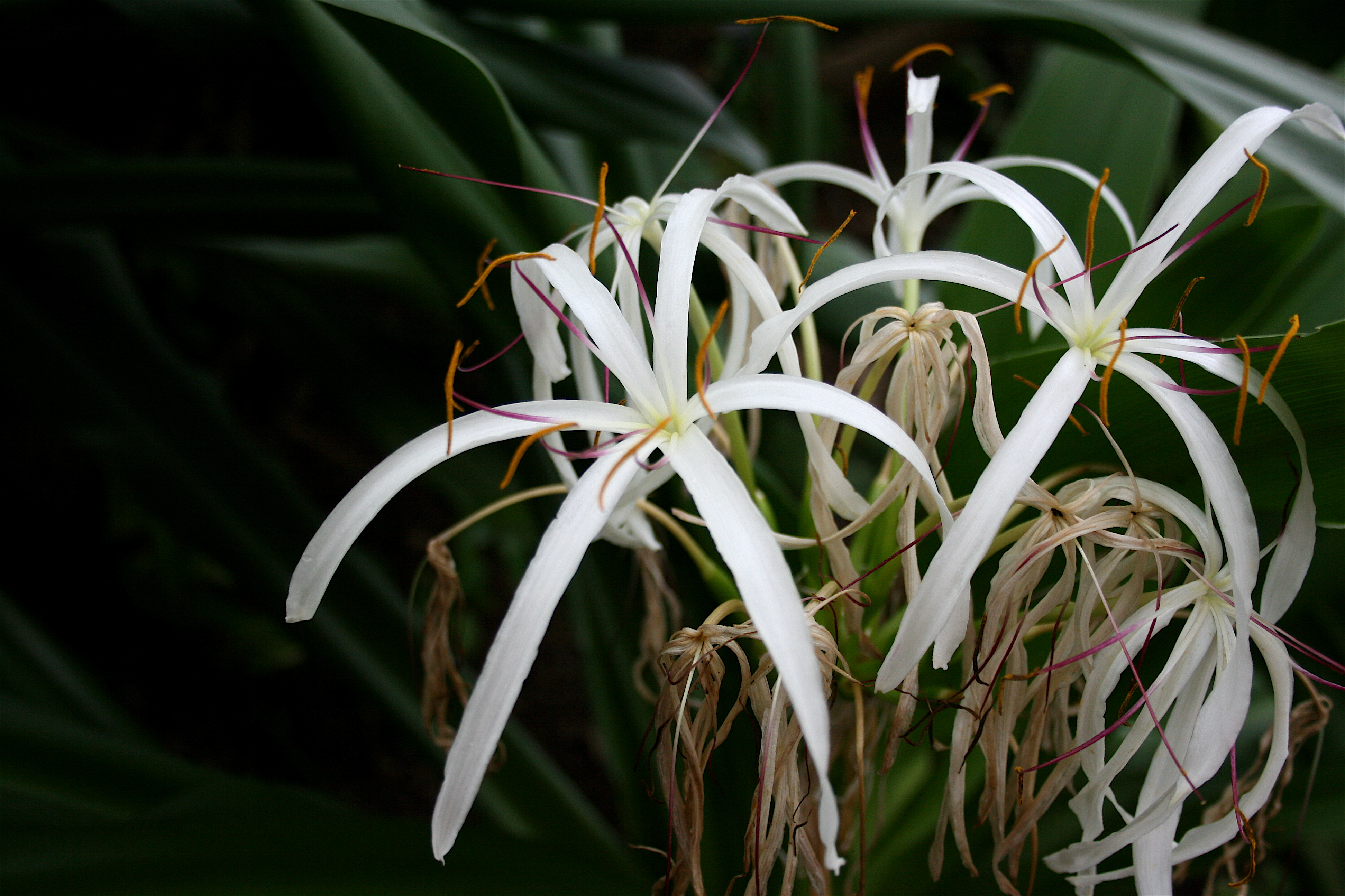 Crinum Lily (Crinum asiaticum) at Frederik Meijer Gardens & Sculpture Park in Grand Rapids, MI.